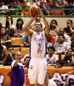 Smart Gilas vs Air 21